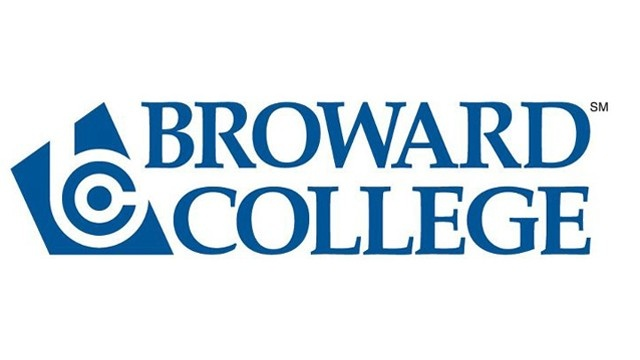 Logo Broward College